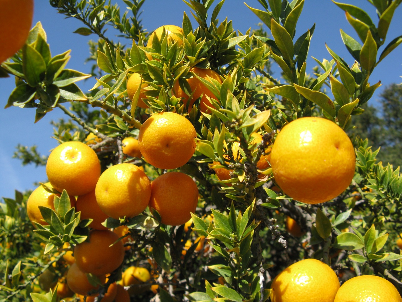 aka Citrus aurantium 'Chinotto'. Photographed at the Huntington gardens, Los Angeles